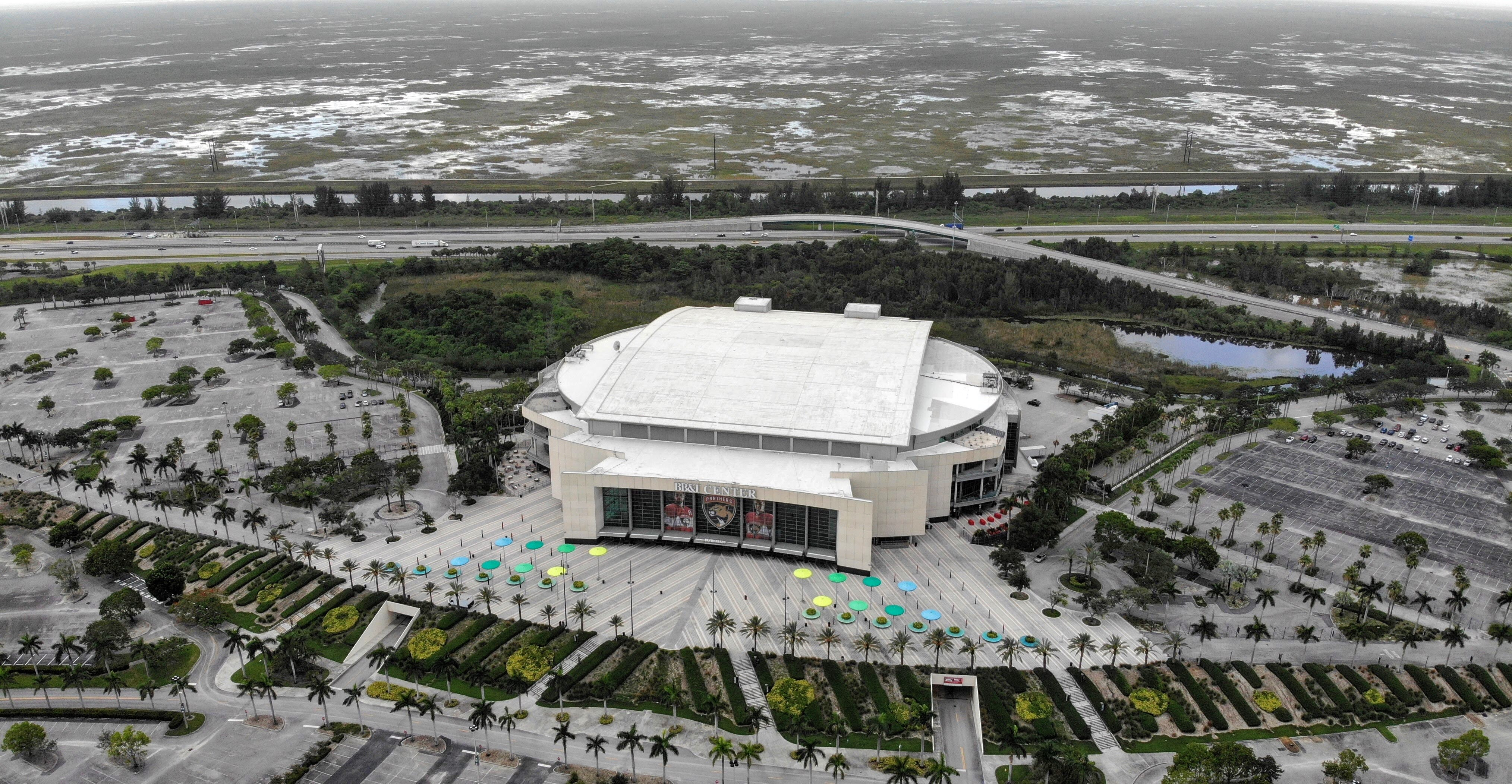 An aerial shot of the BB&T Center in Sunrise, Florida which is also home to the Florida Panthers hockey team.